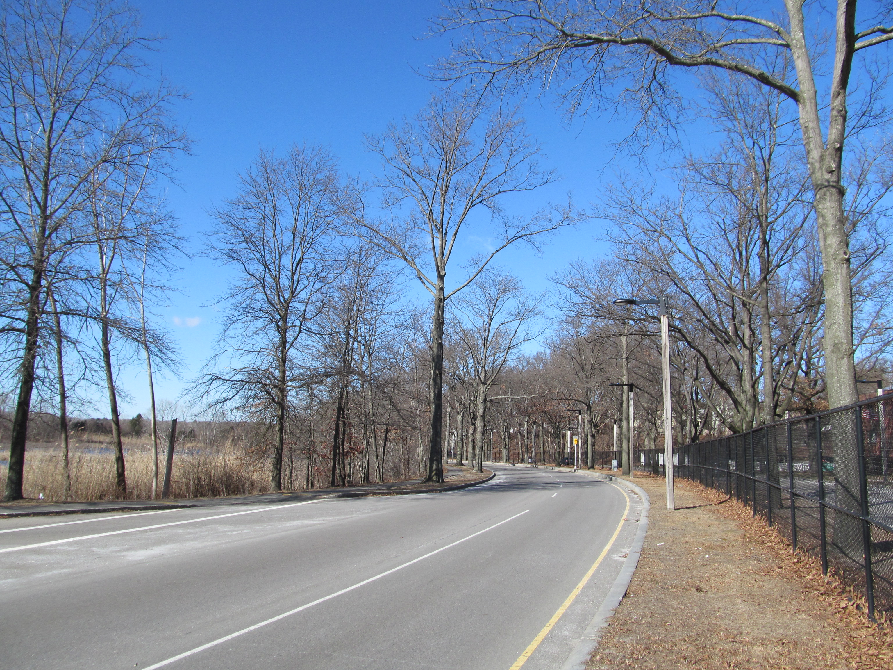 VFW Parkway near the Educational Complex, West Roxbury Massachusetts